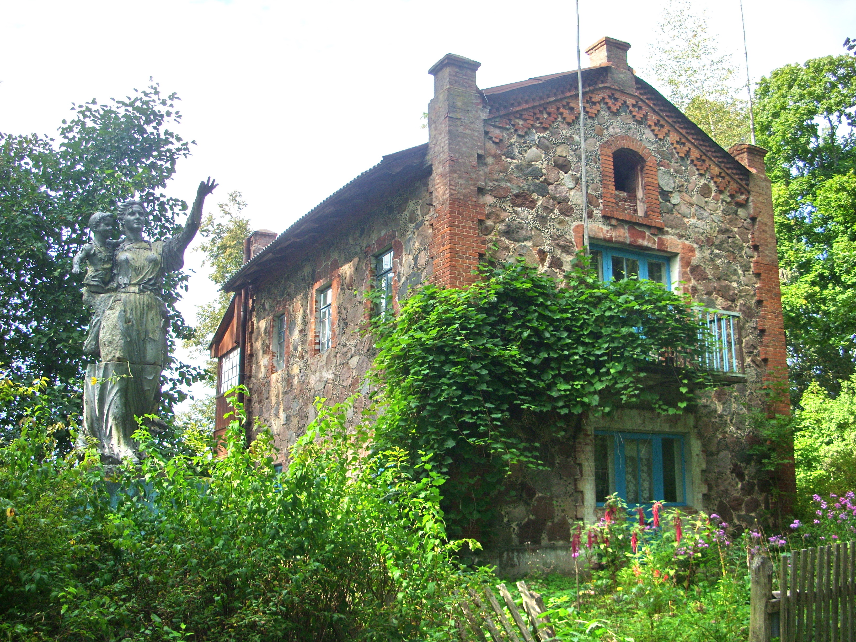 Беларуская (тарашкевіца): Парк «Савейкі». Савейкі This is a photo of Belarusian heritage monument. Reference number: 112Г000482 ( WLM)